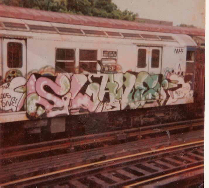 A run-down and graffiti-tagged R22-type New York Subway car as it was typical for the late 1970s.